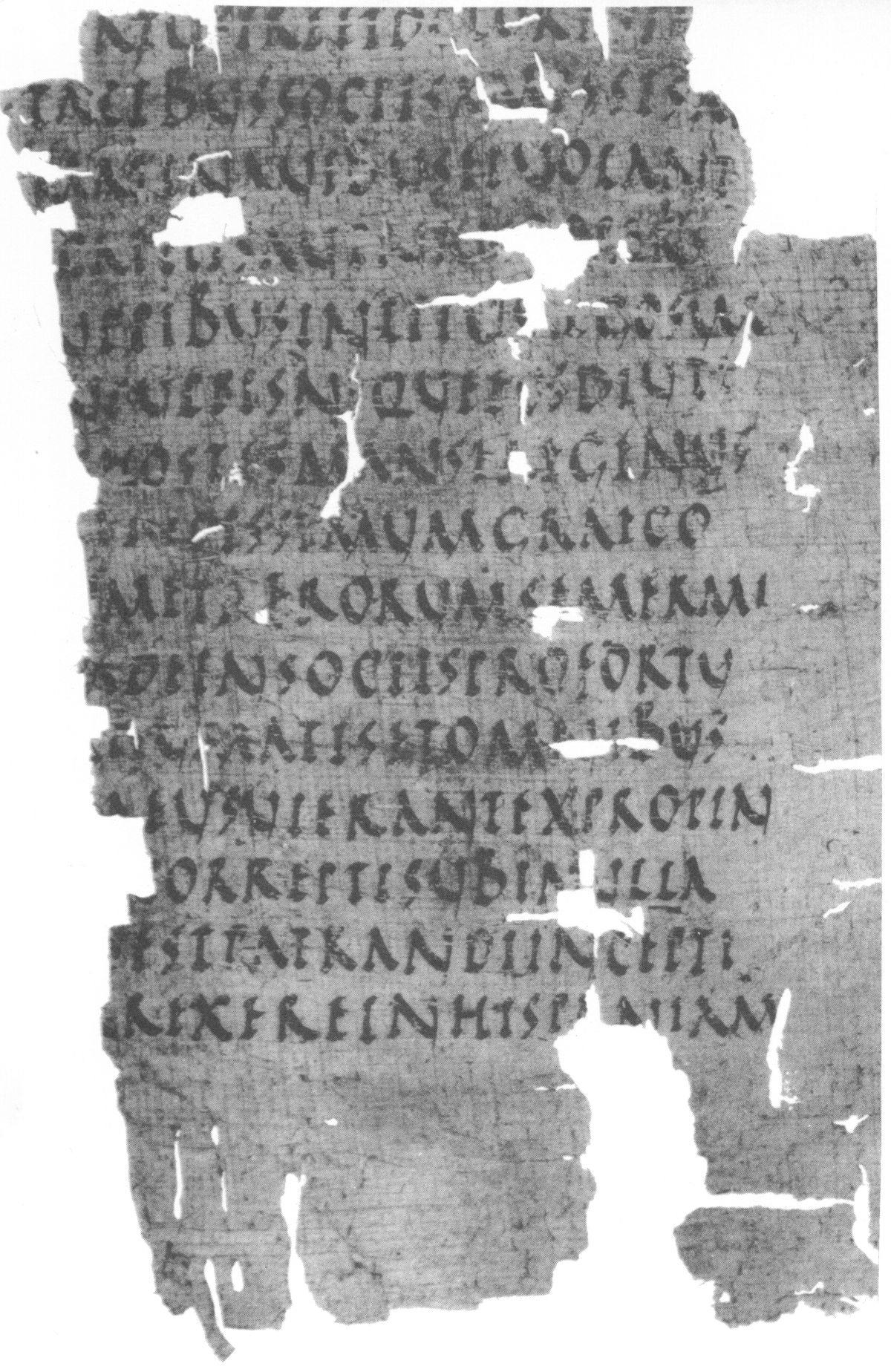 Sallust, Historiae. Fragment of an ancient papyrus. Manchester, John Rylands Library, Pap. 473.